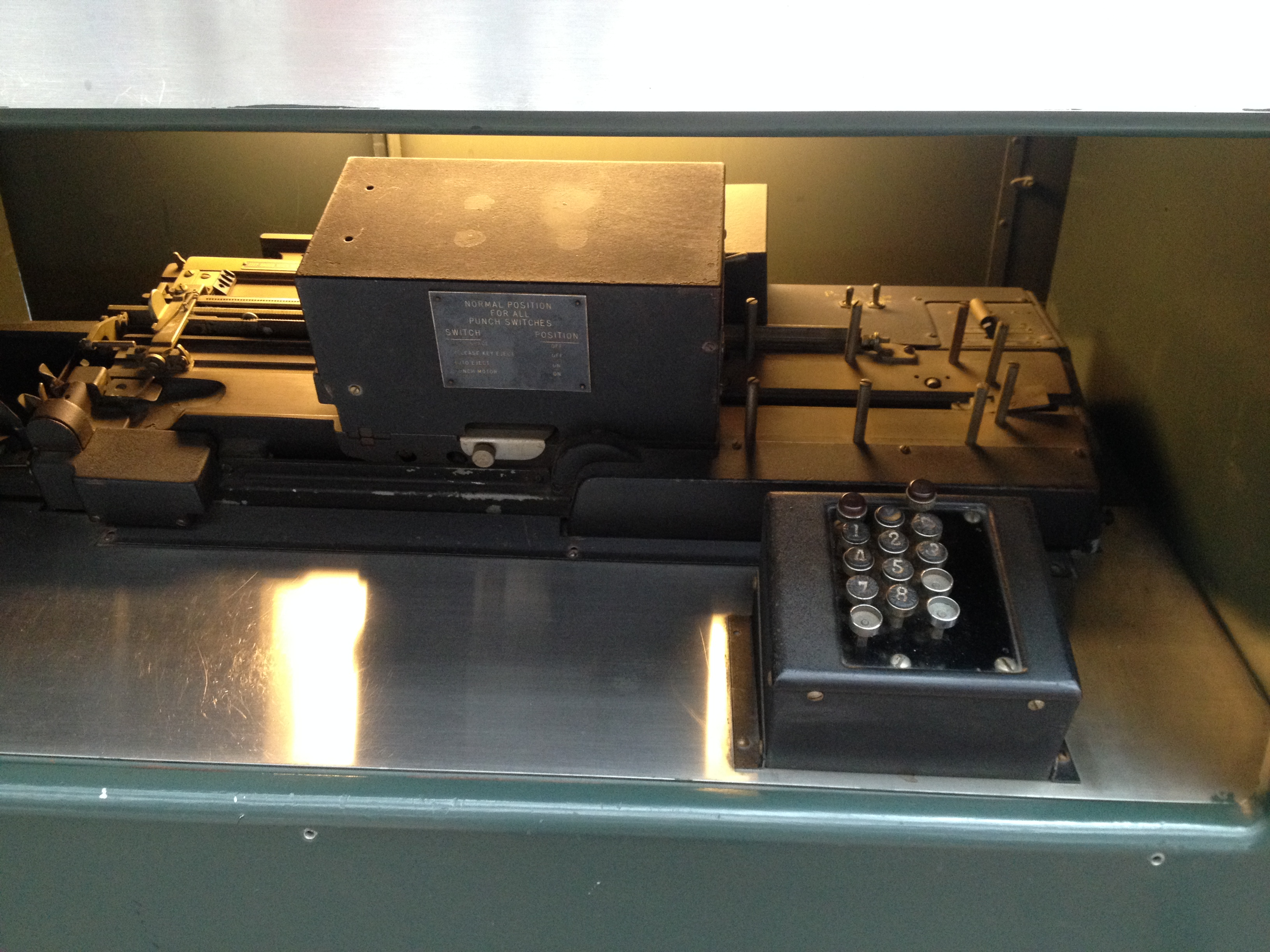 Card punch at Harvard Mark I exhibit.